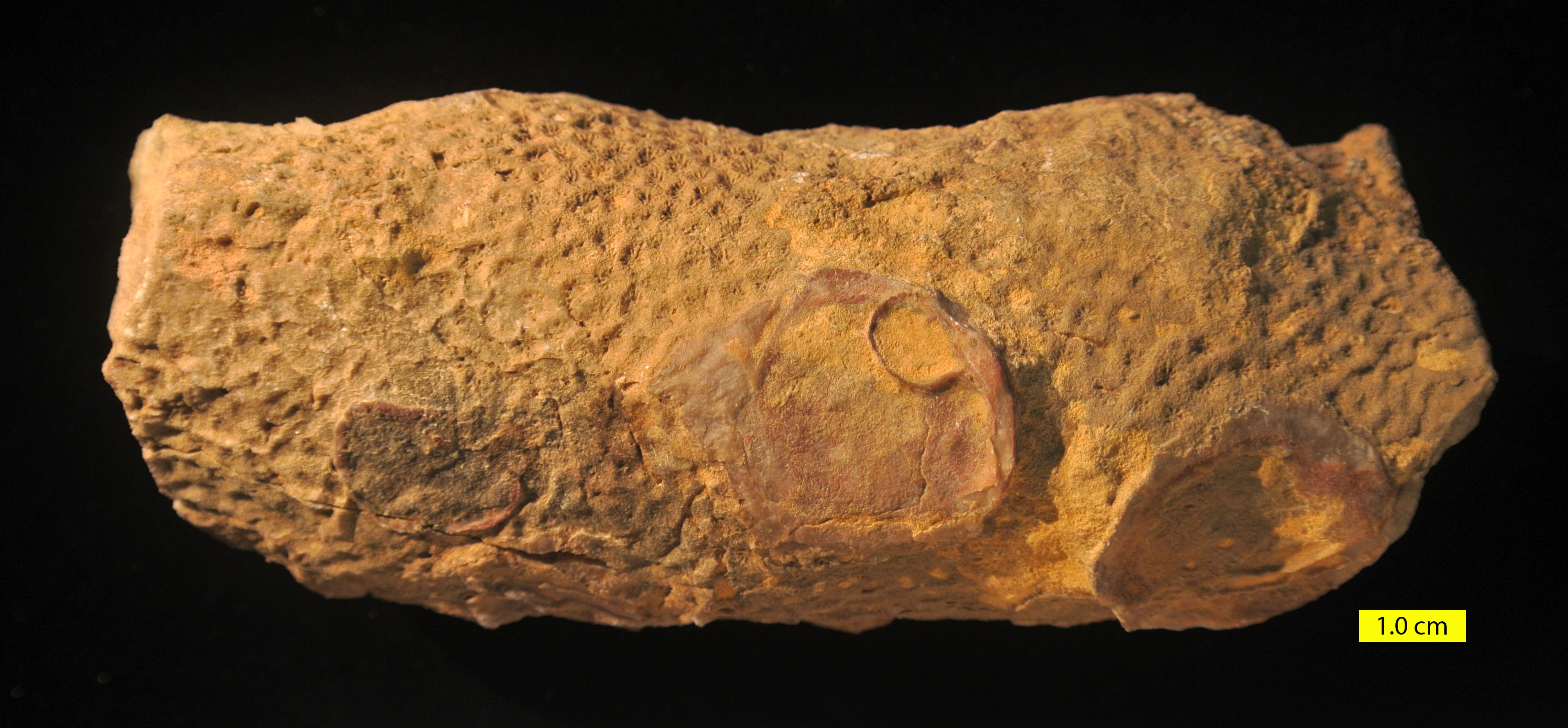 Amphiastrea Etallon 1859; a scleractinian coral from the Matmor Formation (Callovian) of southern Israel.